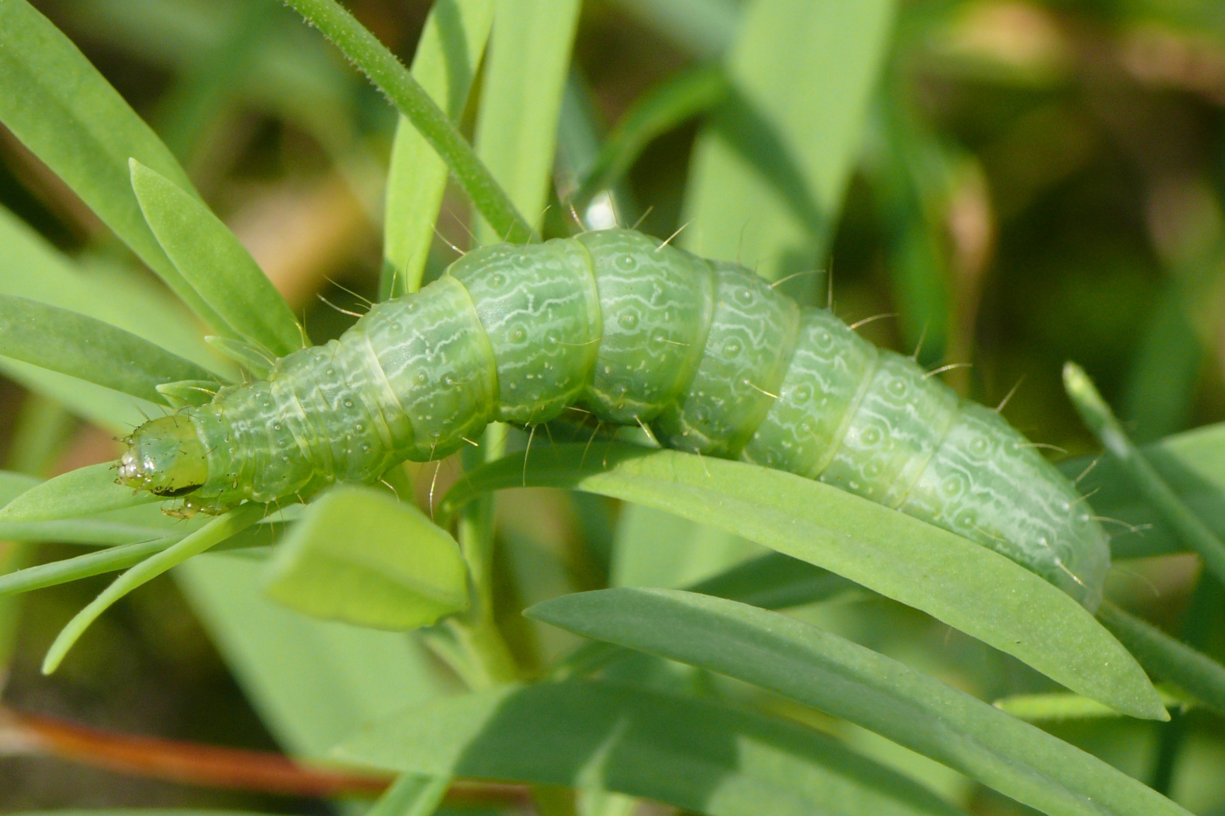 Matrure caterpillar of the Silver Y (Autographa gamma)